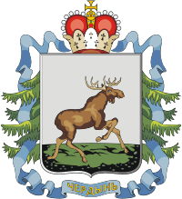 Coat of Arms of Cherdyn, Perm kray, Russia, 1997